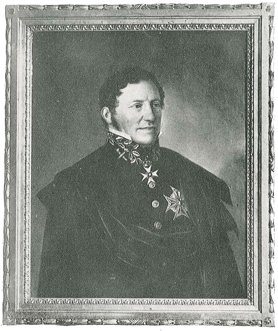 Salomon Löfvenskiöld (1764-1850), Swedish baron, officer, county governor and president of Kammarkollegiet.